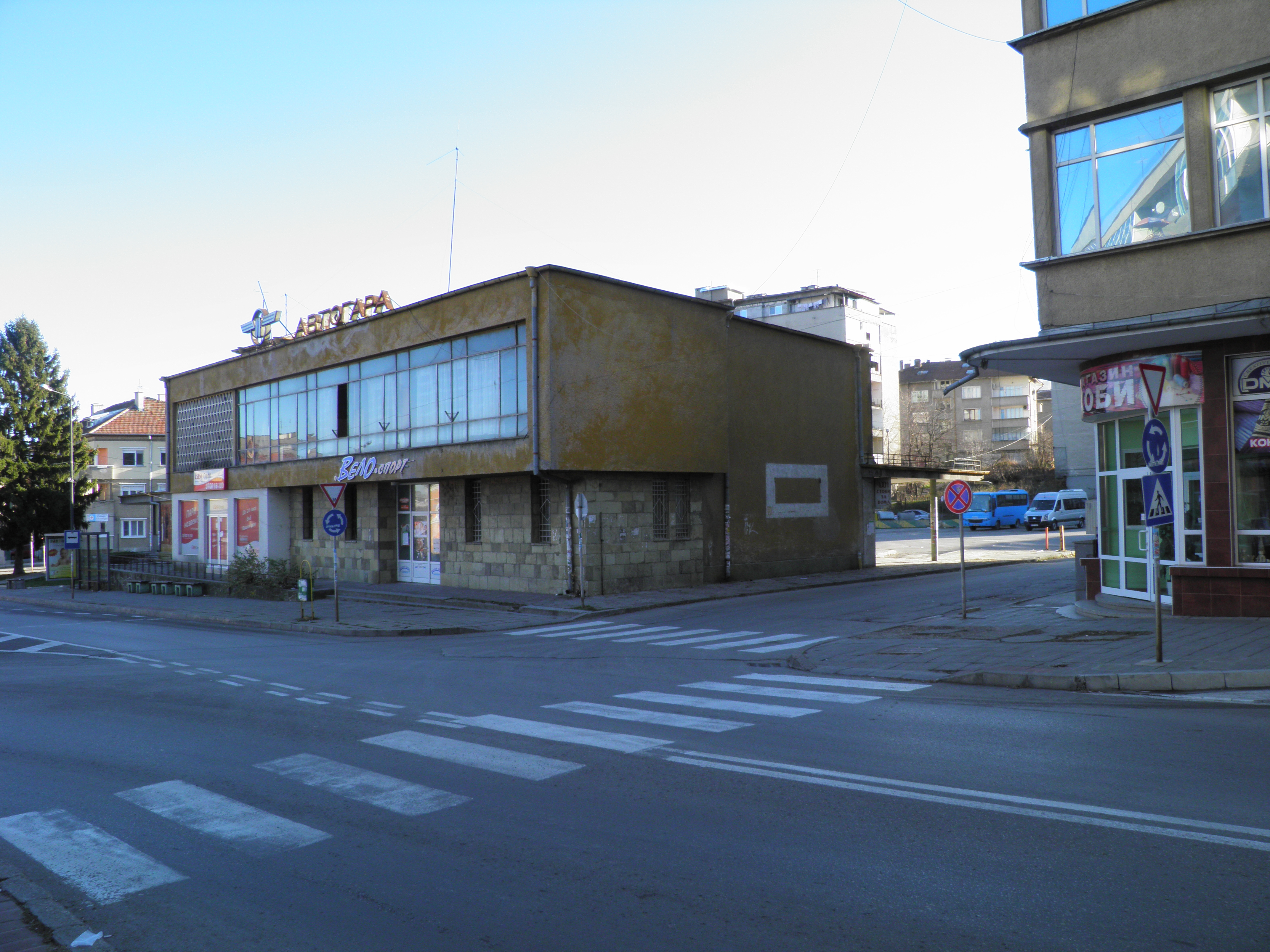 Bus station in Gorna Oryahovitsa